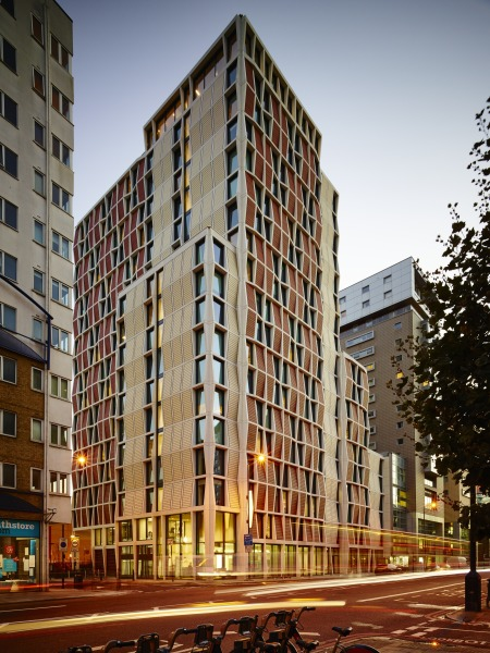 813 N123 webview